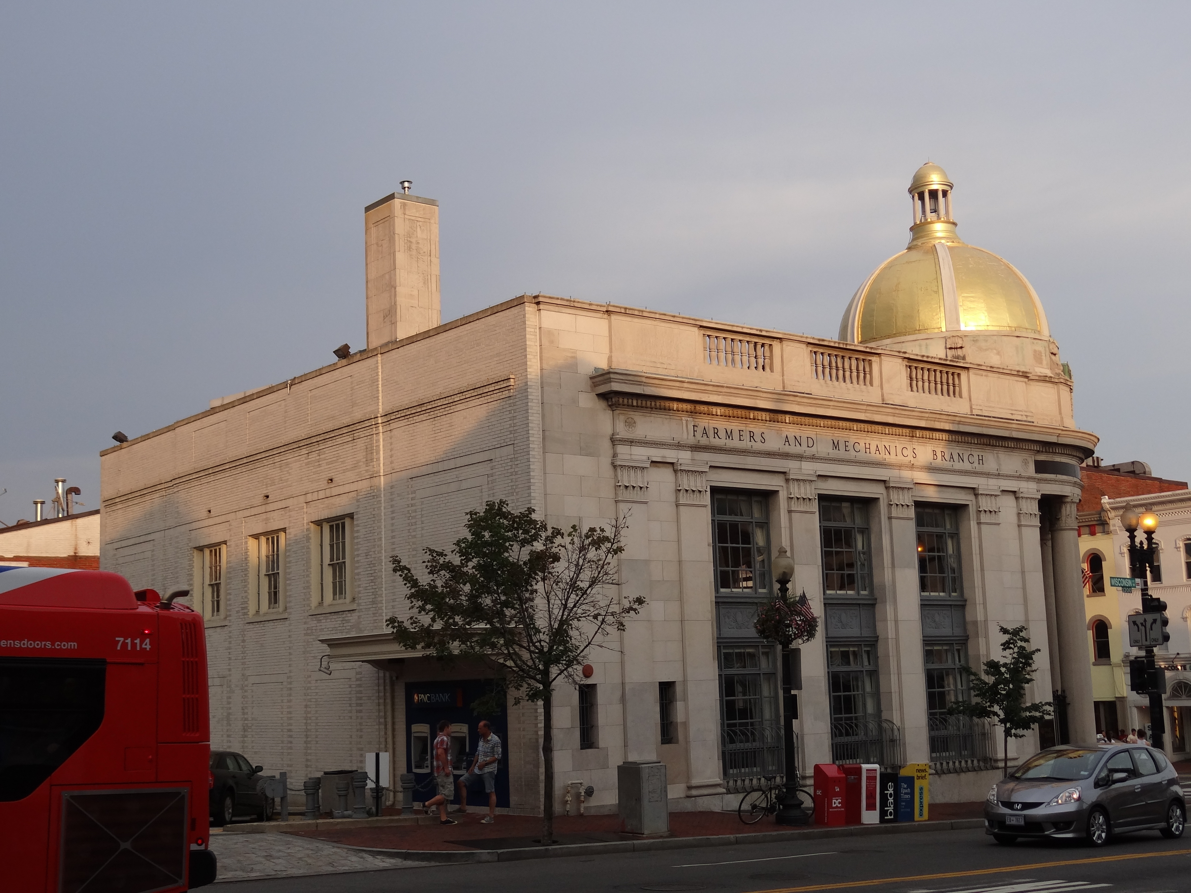 Georgetown - Washington DC {juli 2012}